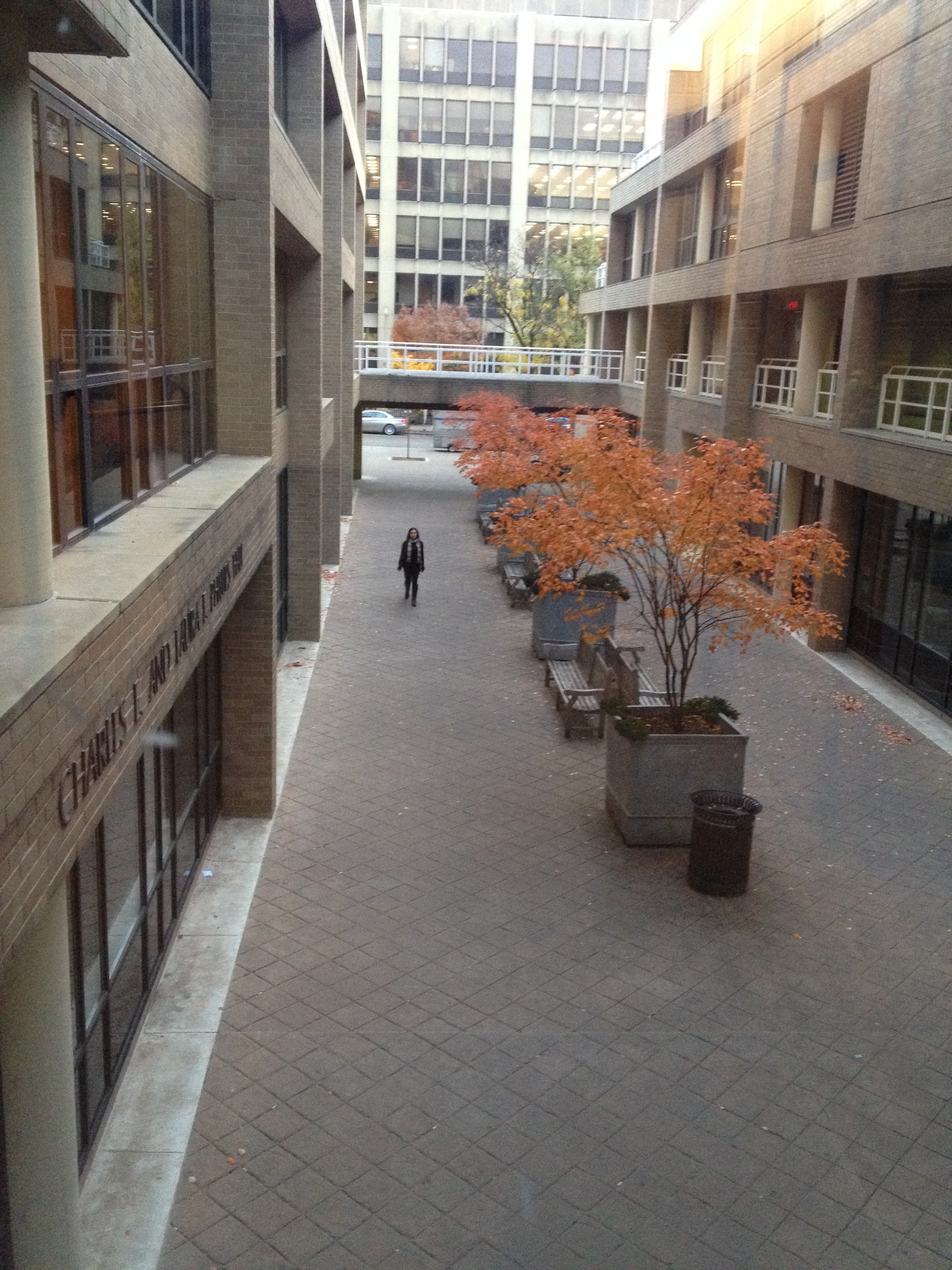 A view of a path on the George Washington University campus. Taken from the second floor of Rome Hall, facing Gelman Library.